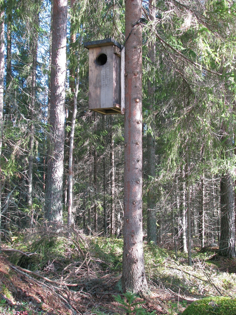 Nestbox for Ural Owl - Finland